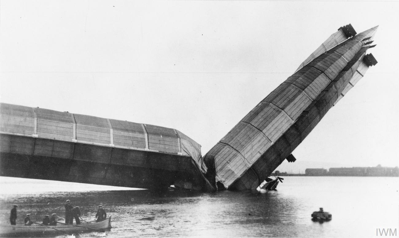 British Airships The Naval Rigid Airship HMA No 1 "Mayfly" with her back broken after being caught by a gust of wind on being taken out of her floating shed at Cavendish Dock, Barrow.